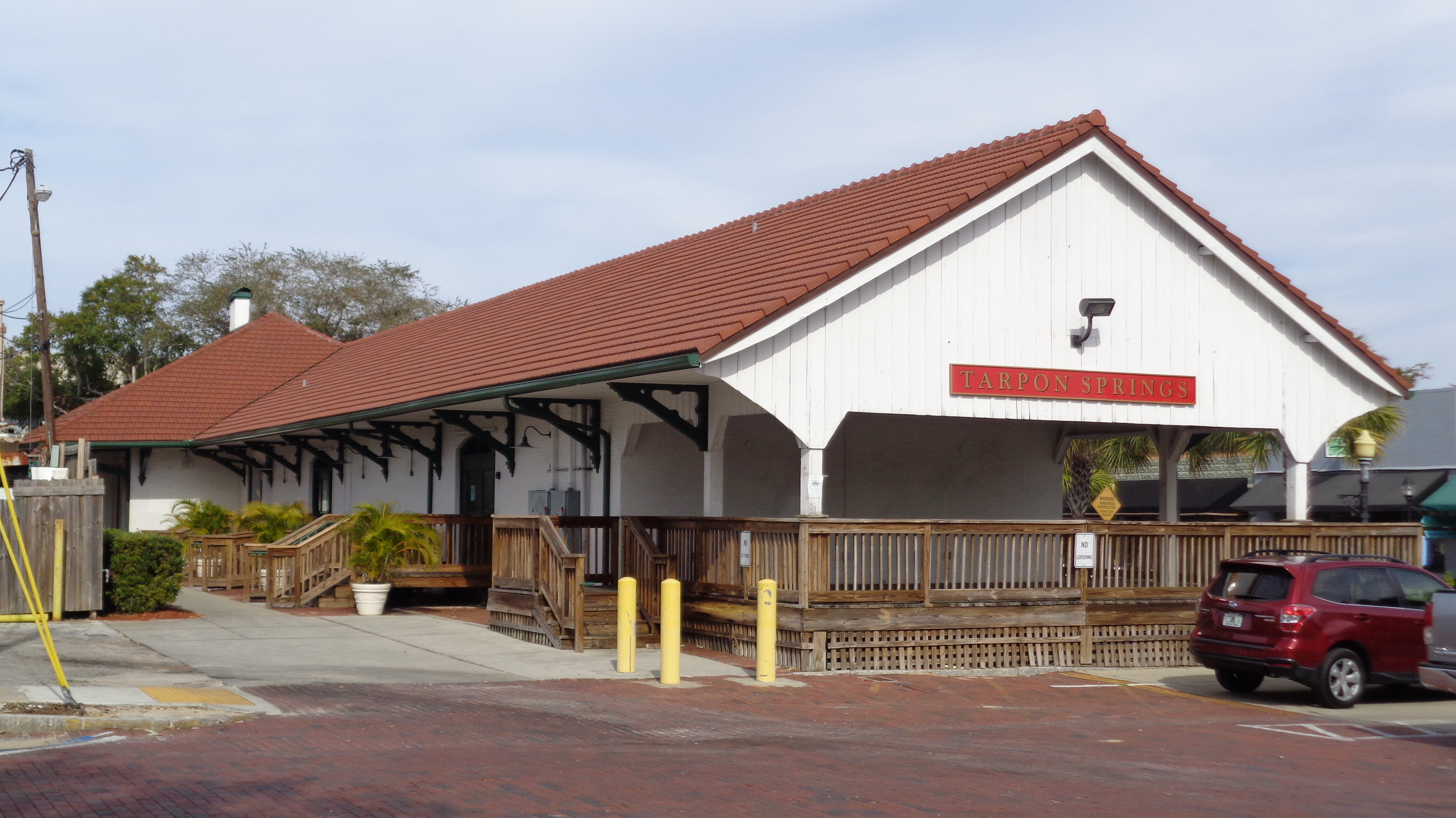 South-facing side of Atlantic Coast Line Railroad depot built in 1909 in Tarpon Springs, Florida.